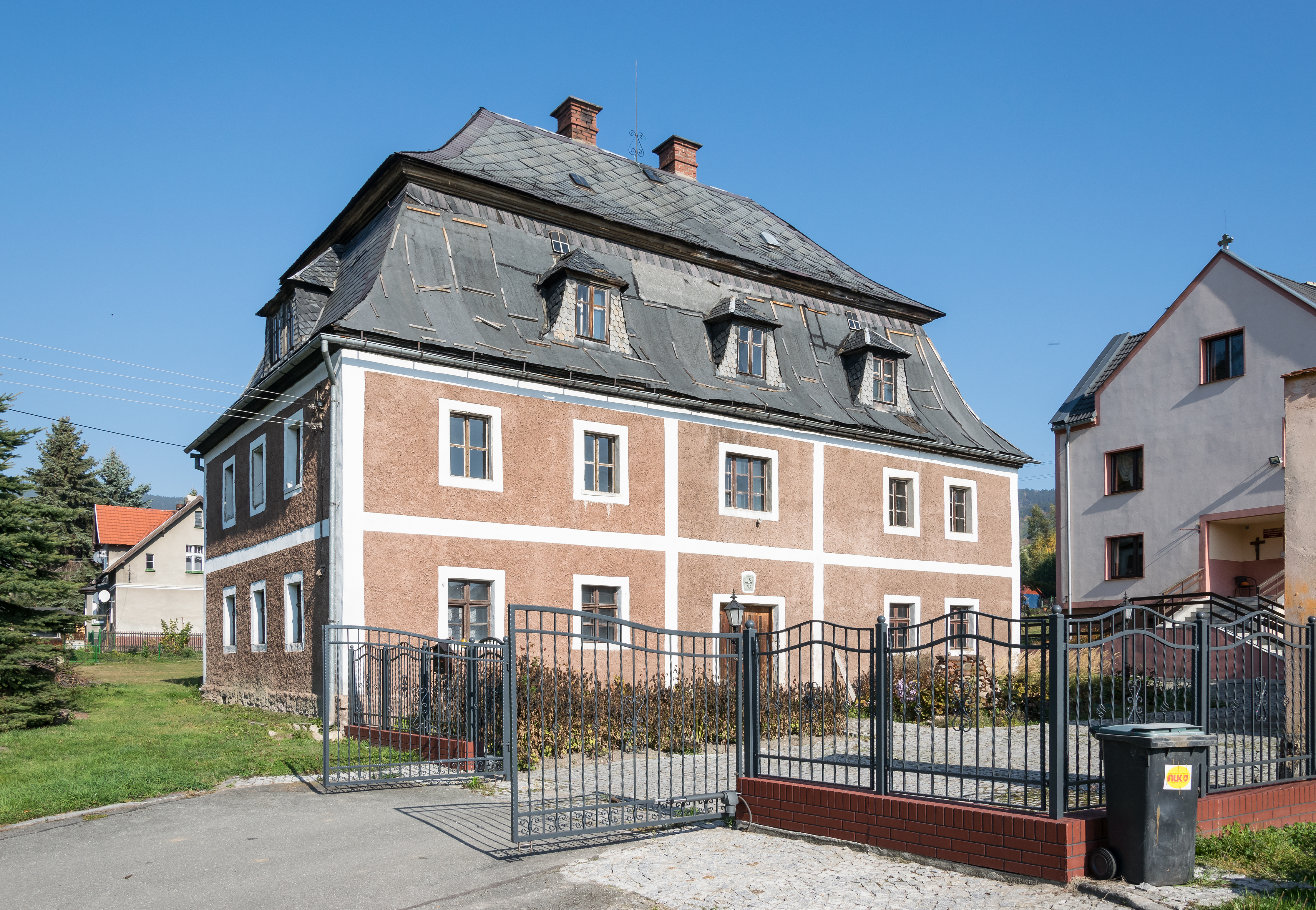 Rectory in Jugów